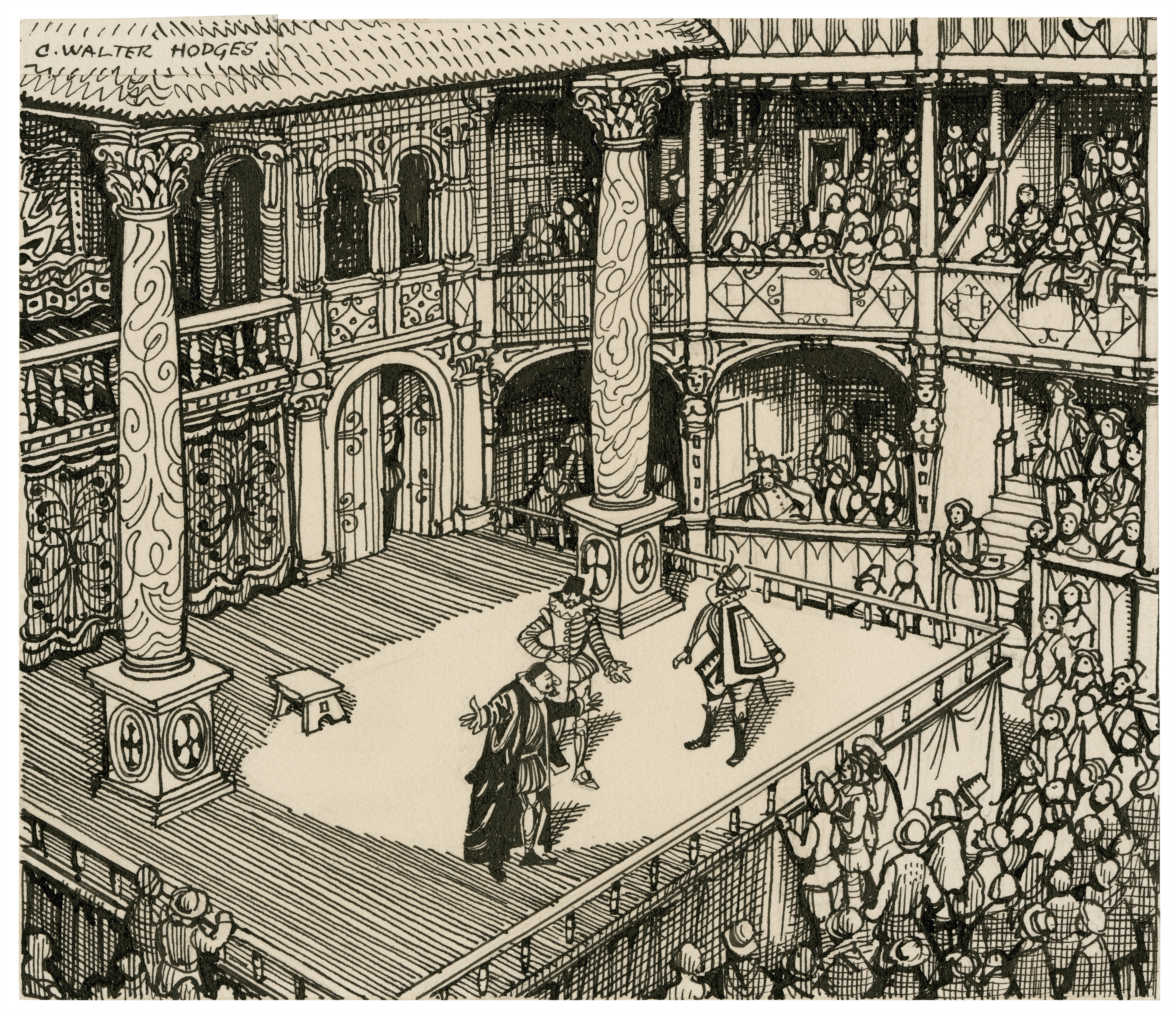 C. Walter Hodges' imagined reconstruction of Shakespeare's Merchant of Venice, act 1, scene 3, being performed in an Elizabethan theatre. Drawn for The Globe Restored, published by Ernest Benn, 1953. Folger Shakespeare Library ART Box H688 no.3.1